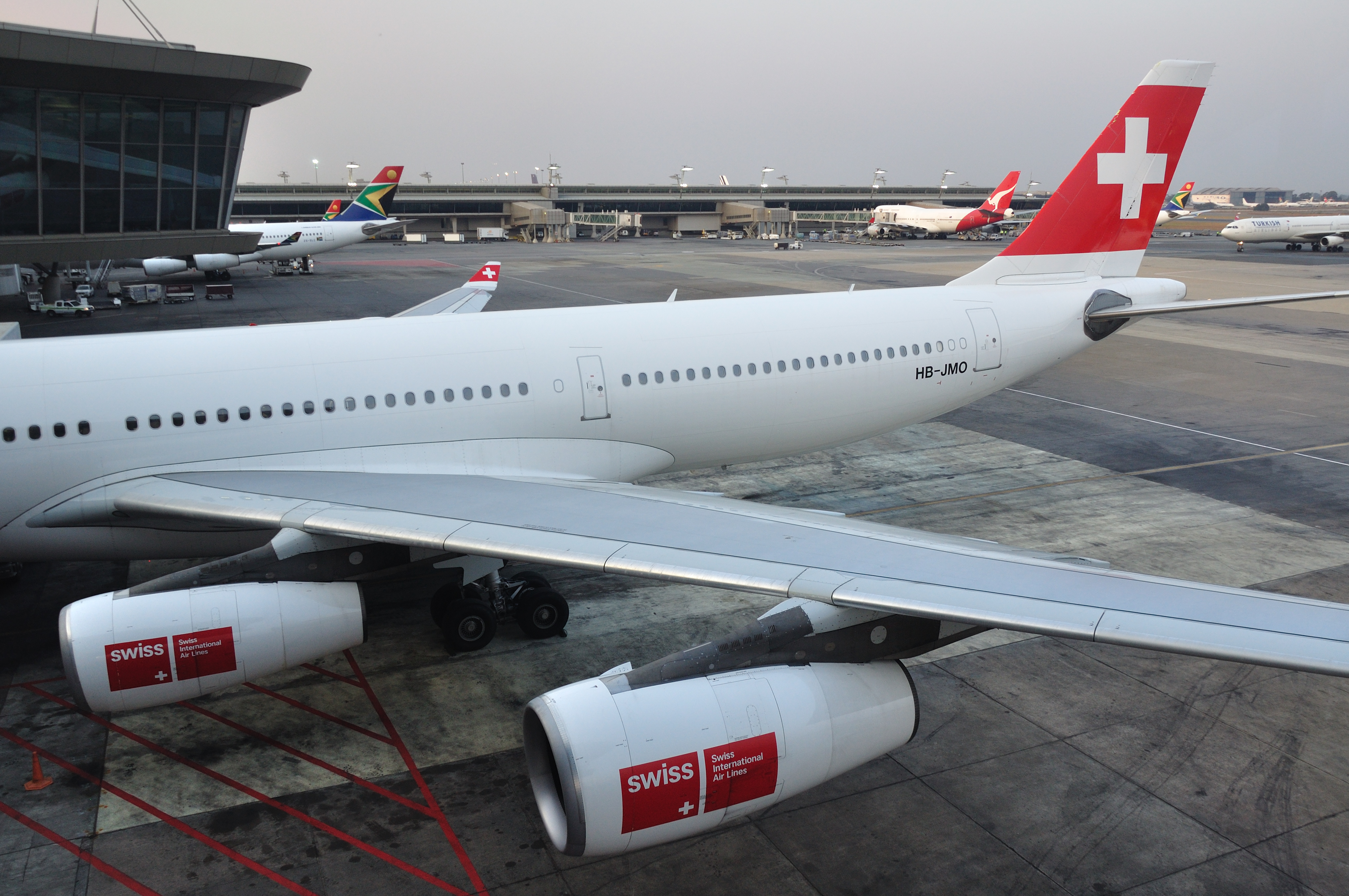 South Africa, another busy day at Johannesburg's OR Tambo International Airport